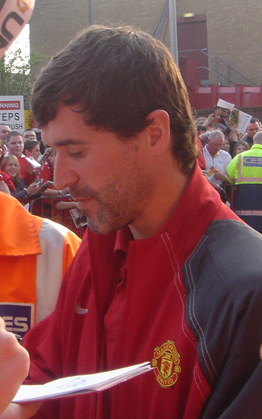 Roy Keane